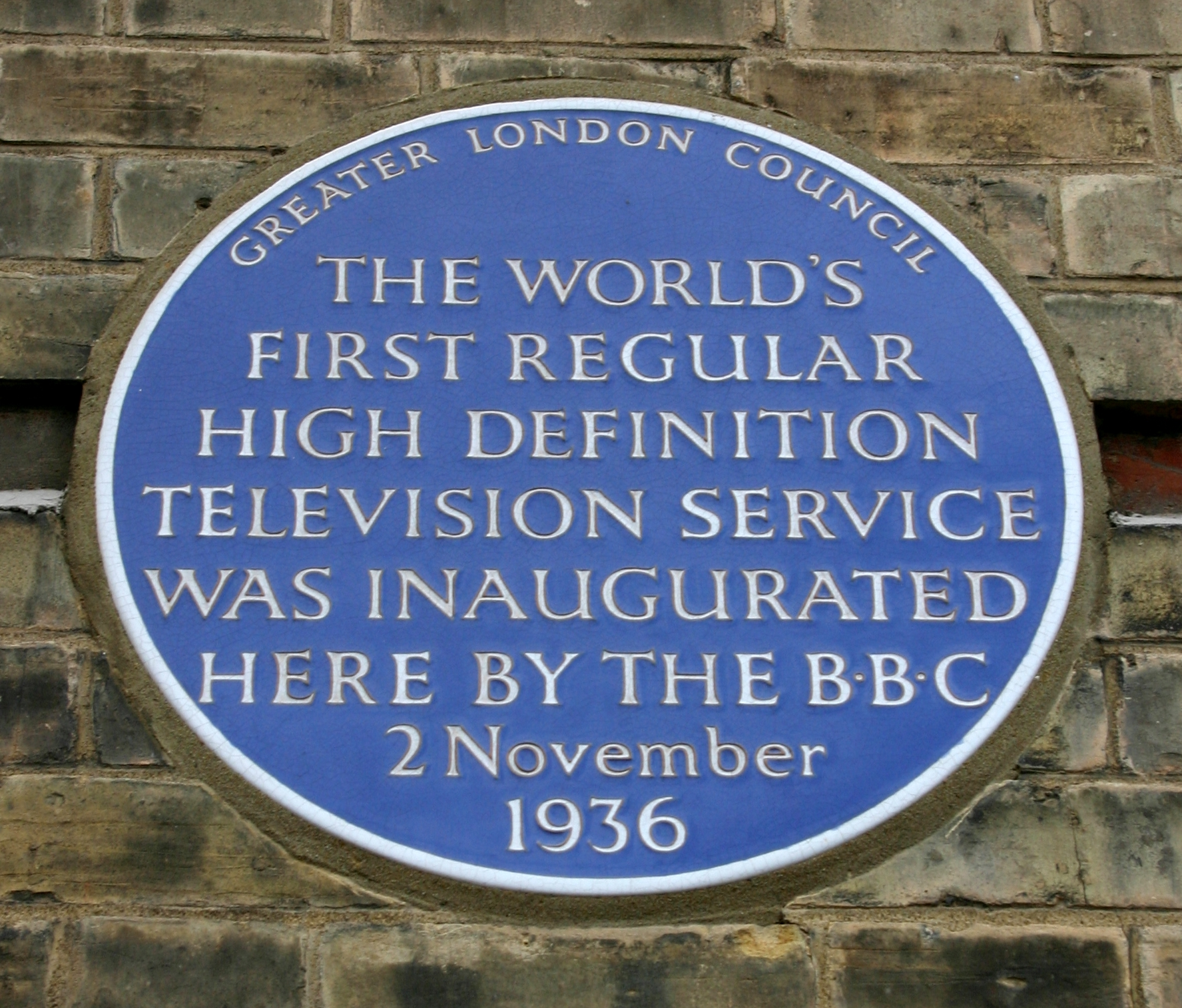 The BBC well ahead of the game...